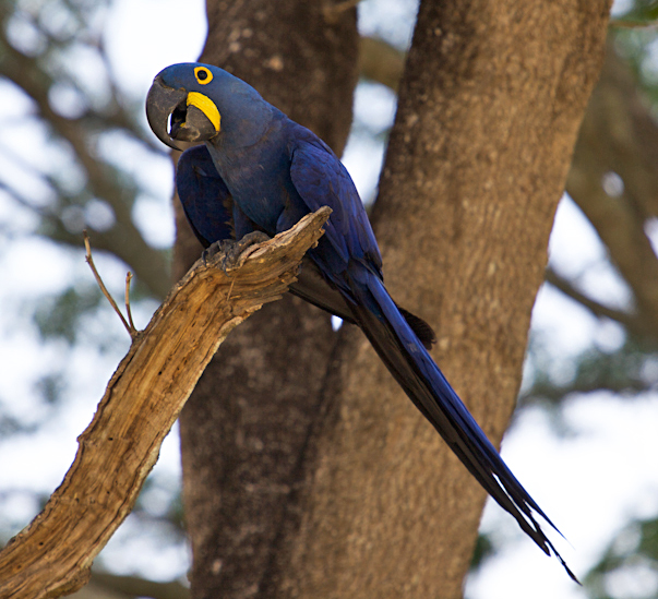 A Hyacinth Macaw in the Pantanal, Mato Grosso, Brazil.